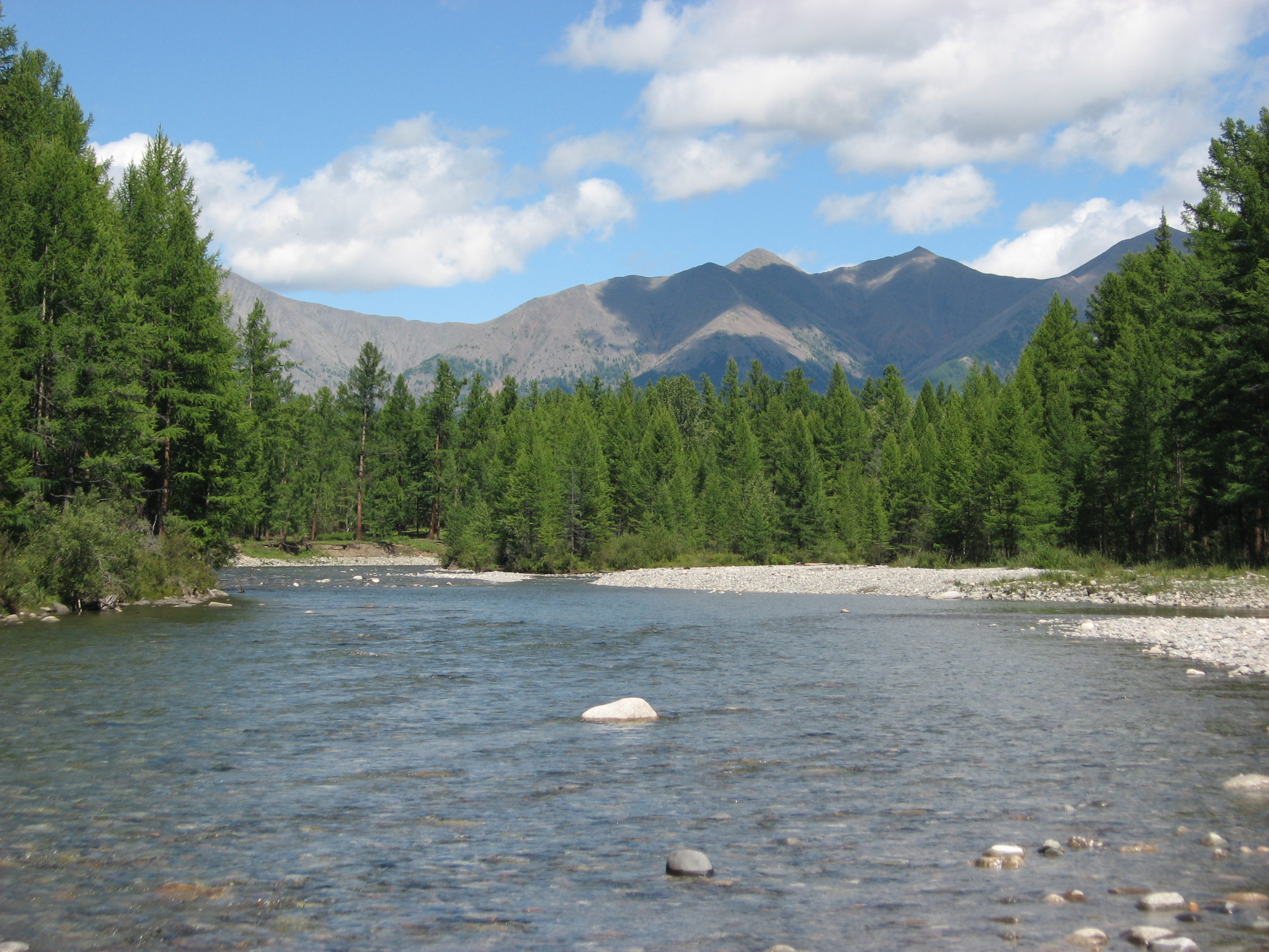 Larix sibirica forest, Jarain Gol, Renchinlhümbe sum, Khövsgöl aimag, Mongolia